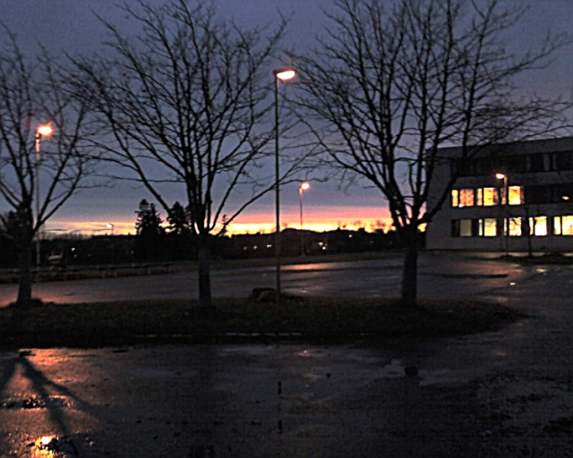 Brundalen videregående skole at 07:51 in the morning November 8 en:2005. Photo taken with a Siemens M75 and released into the public domain by User:kallemax.